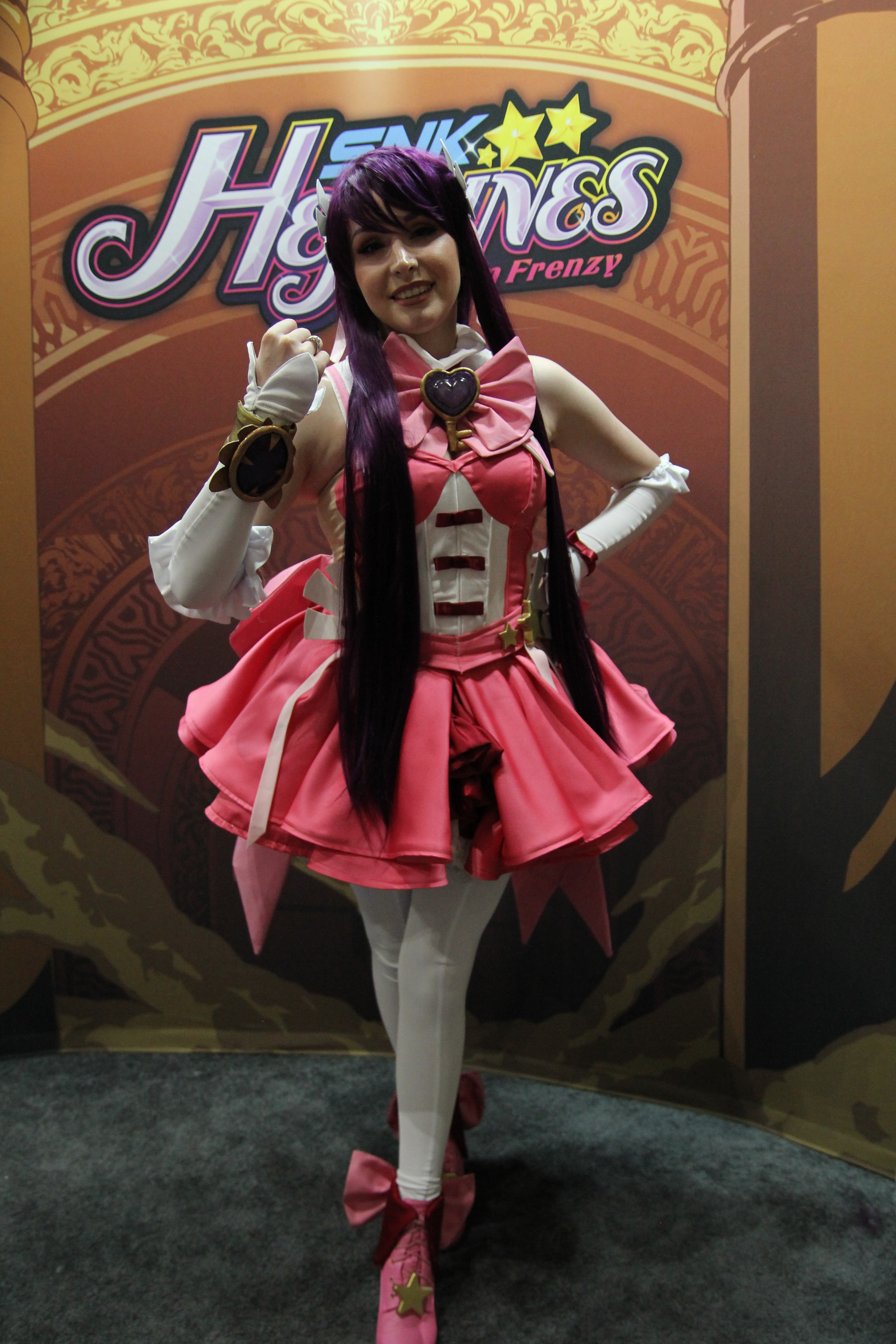 Anime Expo 2018: a cosplayer of Athena Asamiya with her SNK Heroines: Tag Team Frenzy outfit.